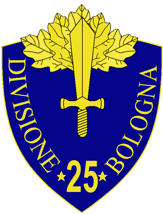 25a Divisione Fanteria Bologna insignia, Regio Esercito, Italy, WWII